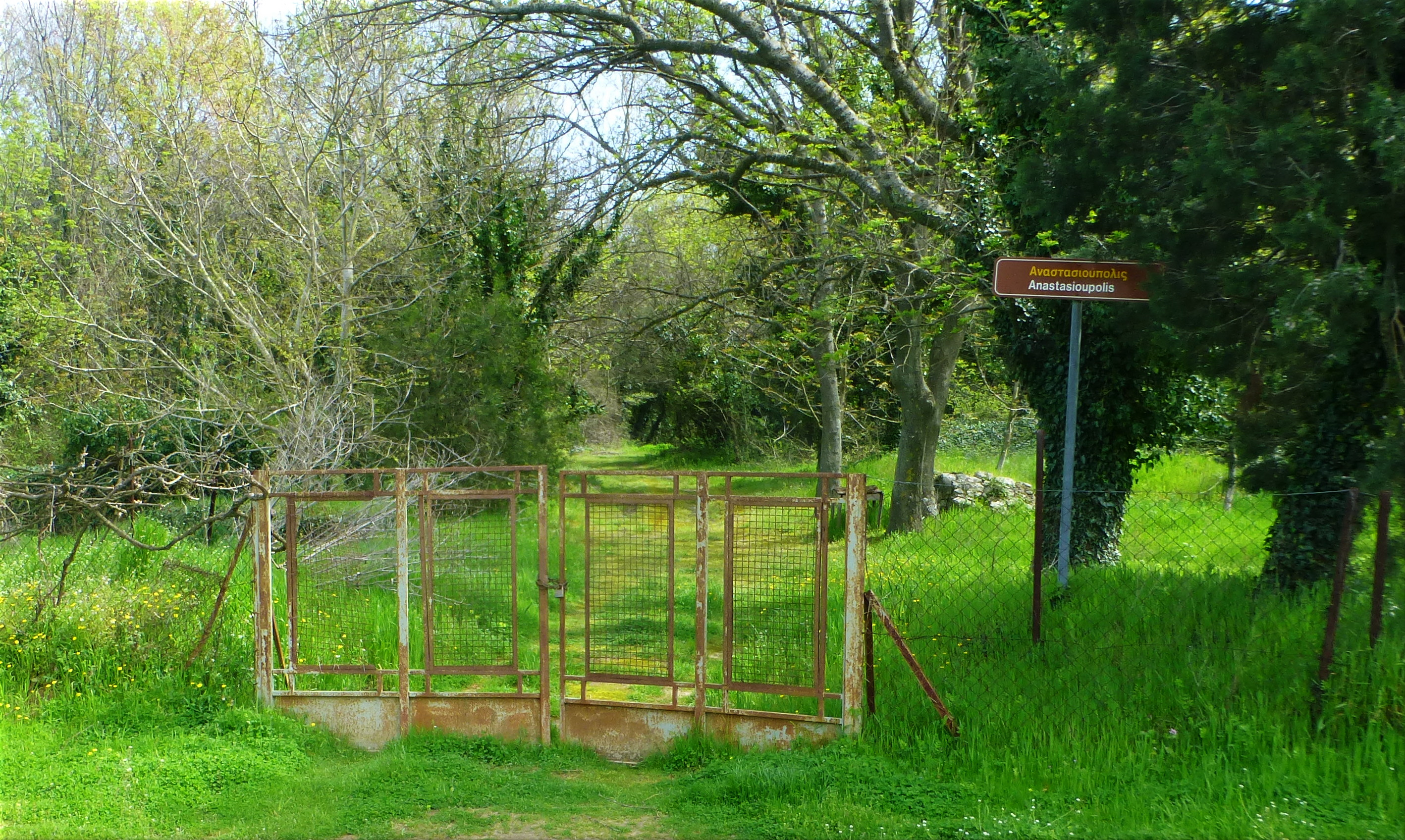 Anastasiopolis, Xanthi, Komotini, Greece